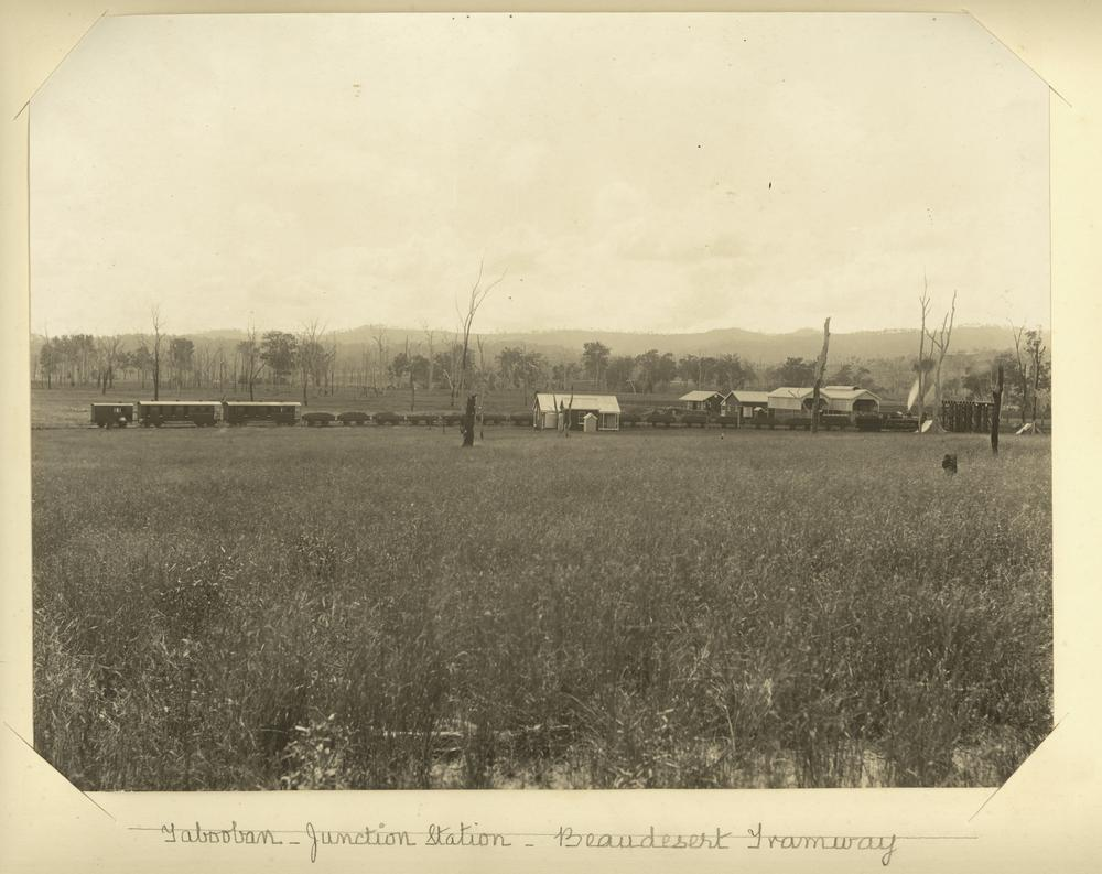 Tabooba Junction Station on the Beaudesert tramway, 1903